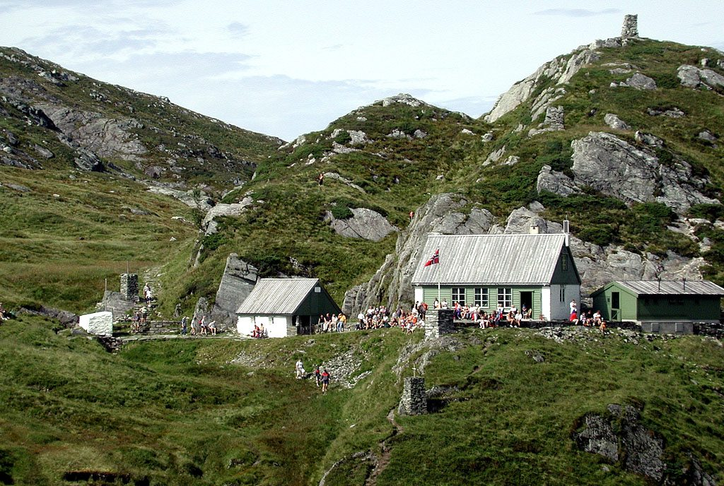 Redningshytten (cabin) at Gullfjellet.